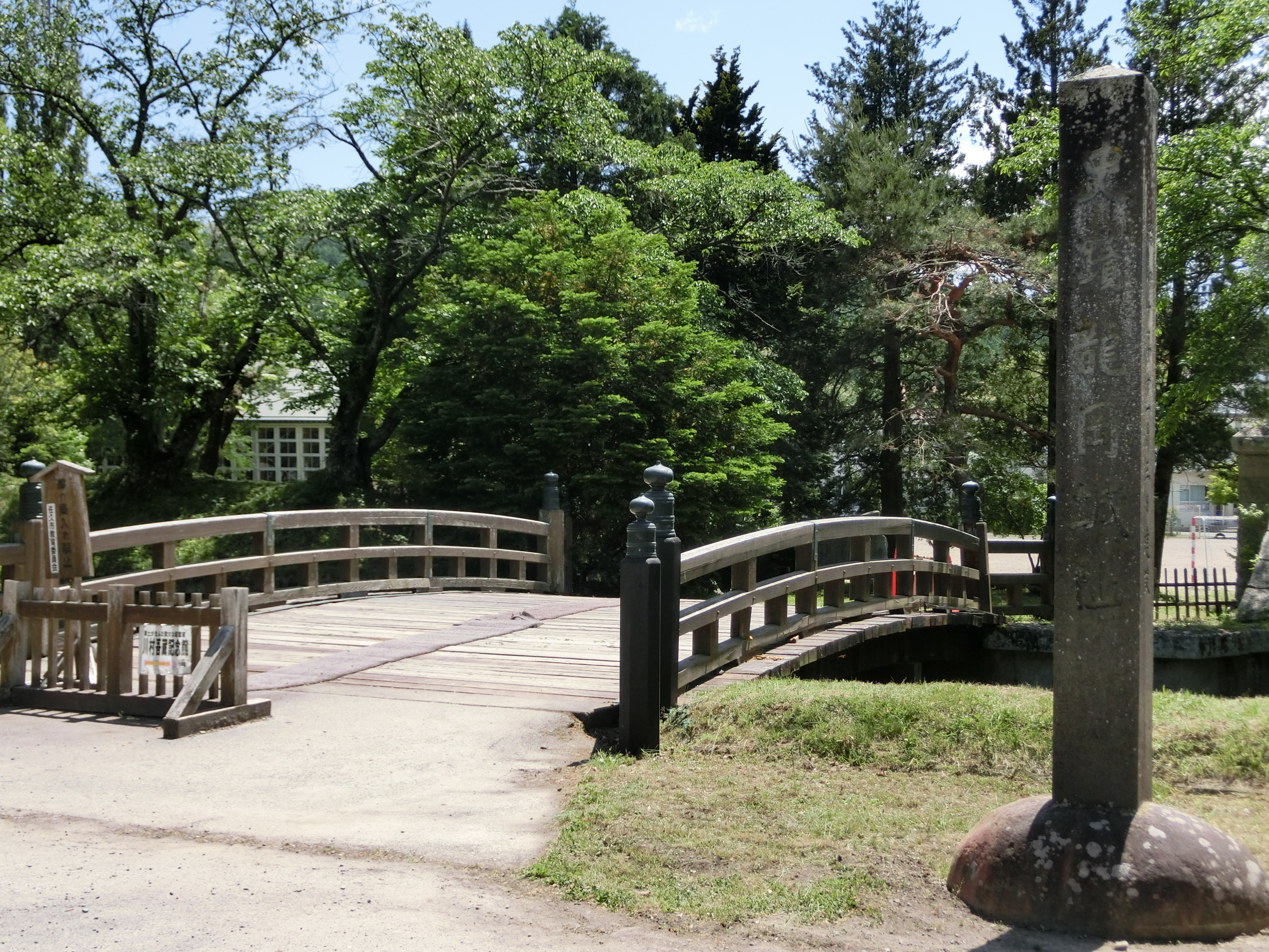 Tatsuoka Castle